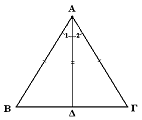 Isosceles triangle